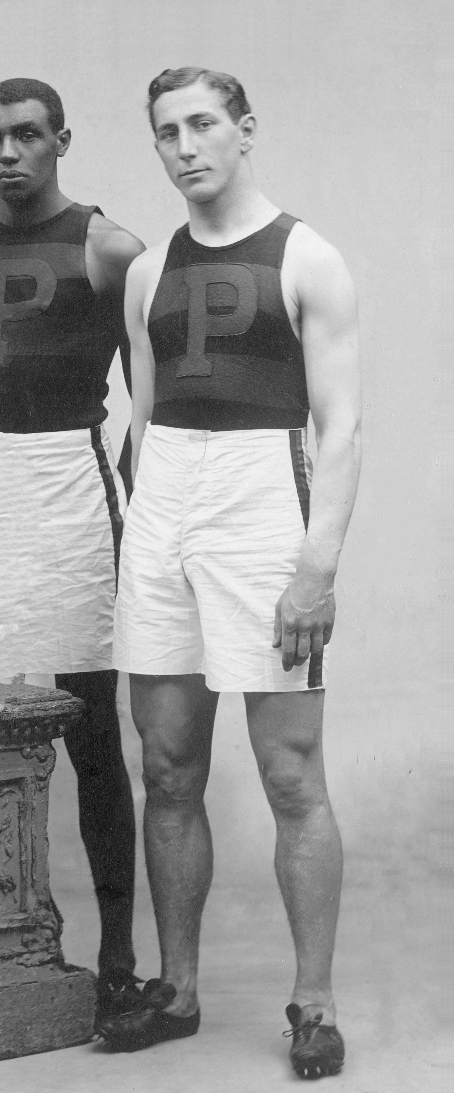 Nathaniel Cartmell at the 1907 ICAA